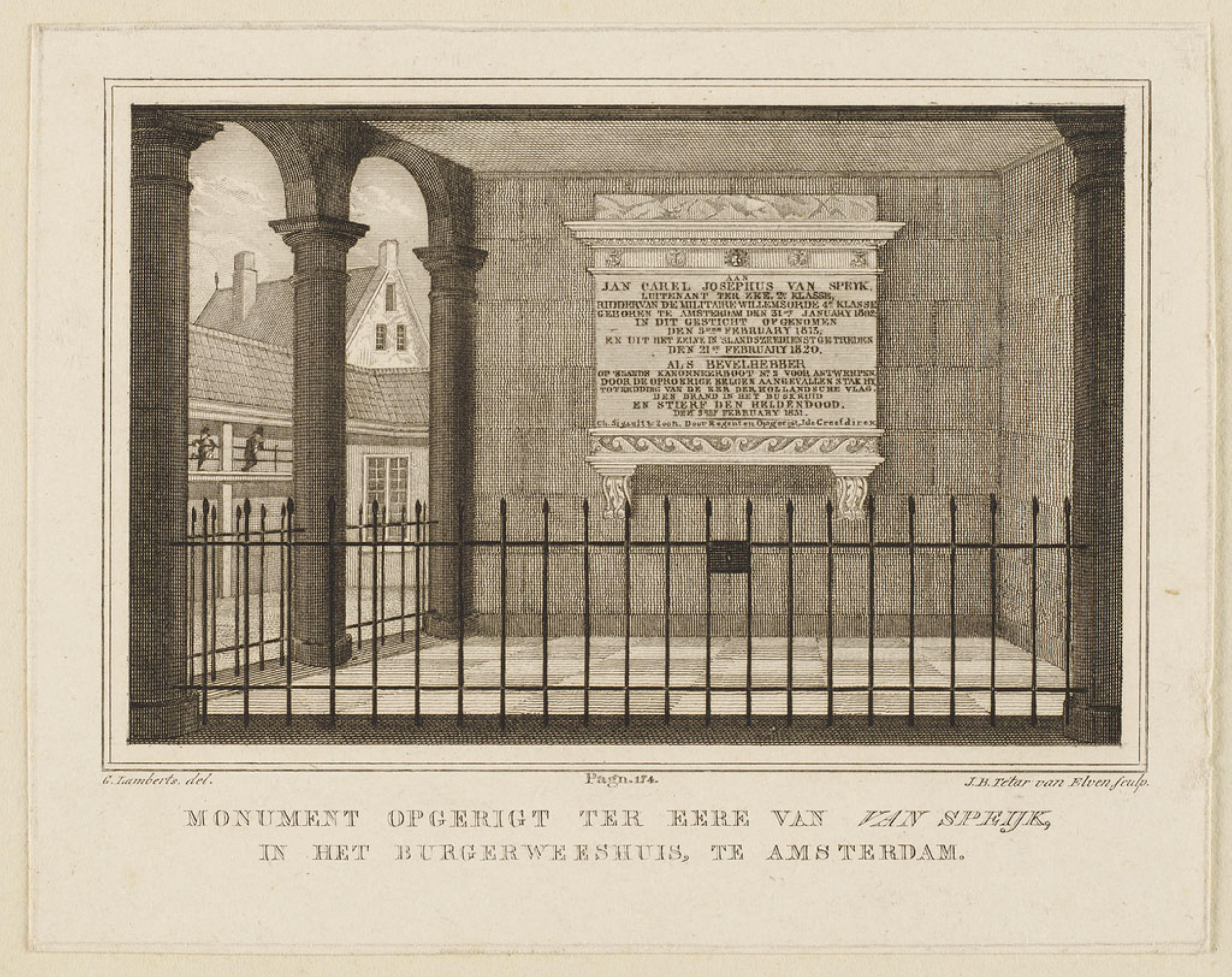 Monument to commemorate Jan van Speyk, in the Burgerweeshuis